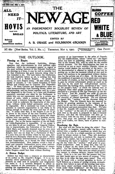 Front cover of the British modernist weekly 'The New Age' . First edition of its relaunch.